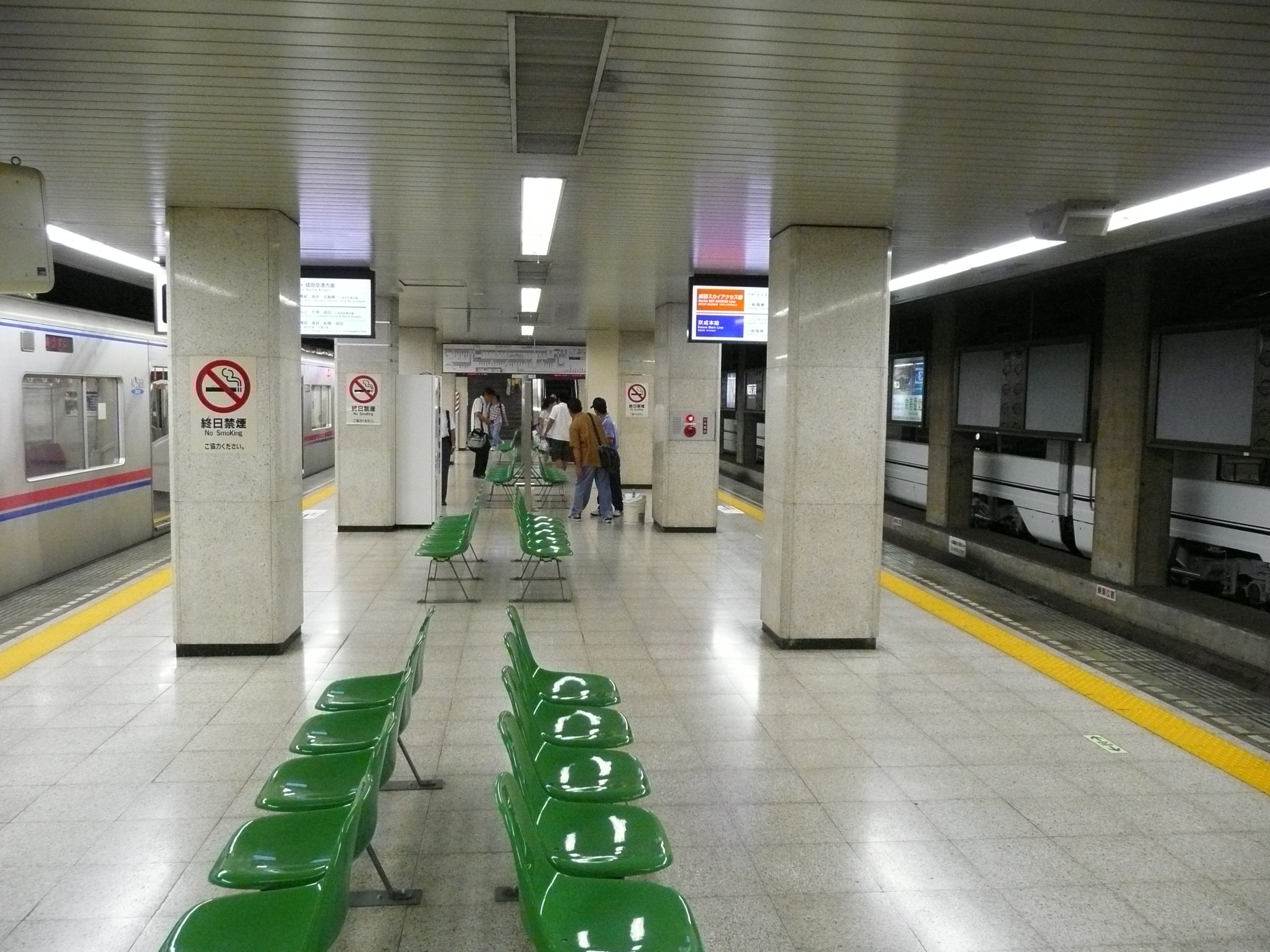 Platforms 3 and 4 at Keisei Ueno Station in Tokyo